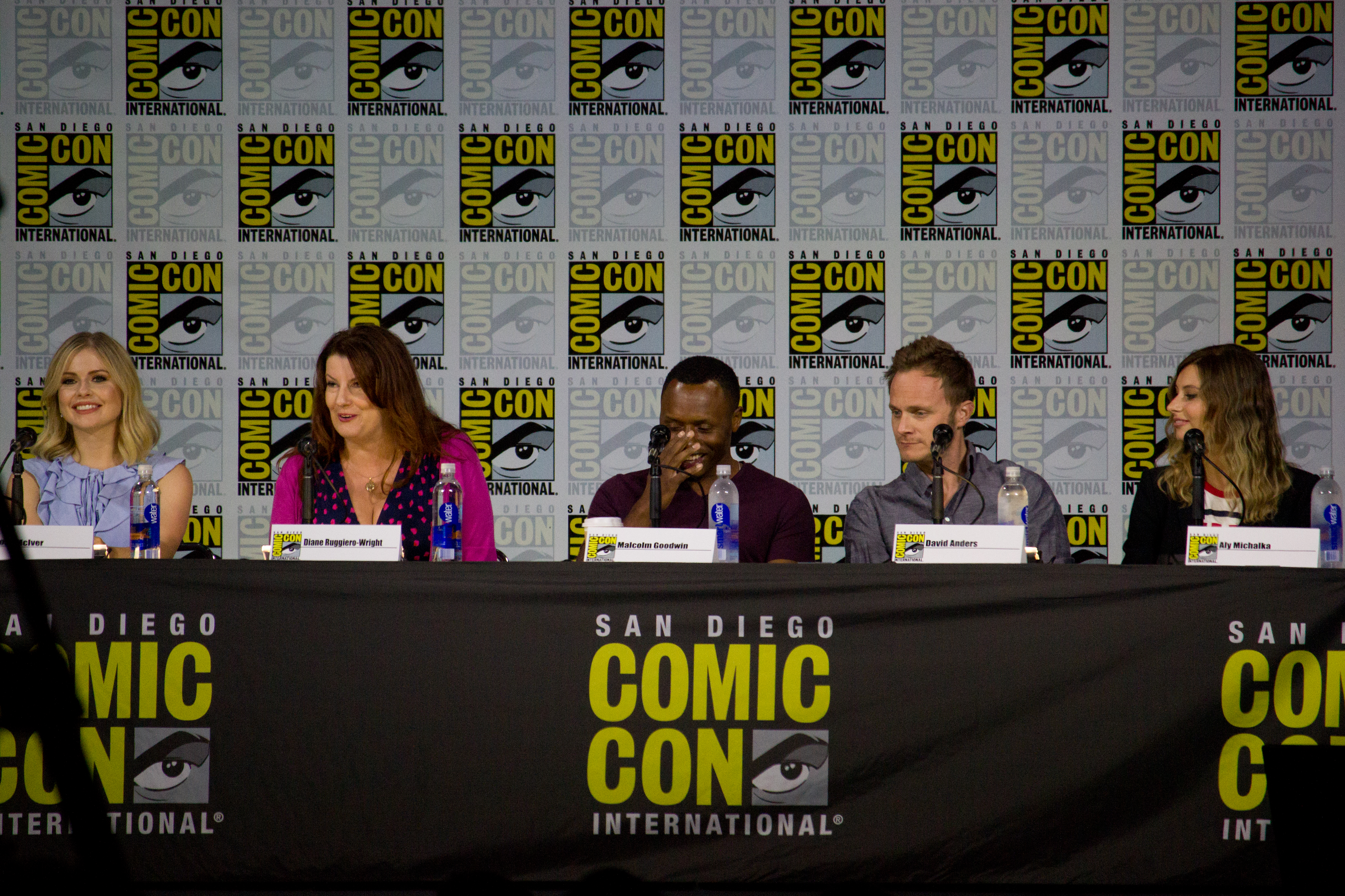 iZombie panel at the 2017 Comic-Con International: Rose McIver, Diane Ruggiero-Wright, Malcolm Goodwin, David Anders and Aly Michalka